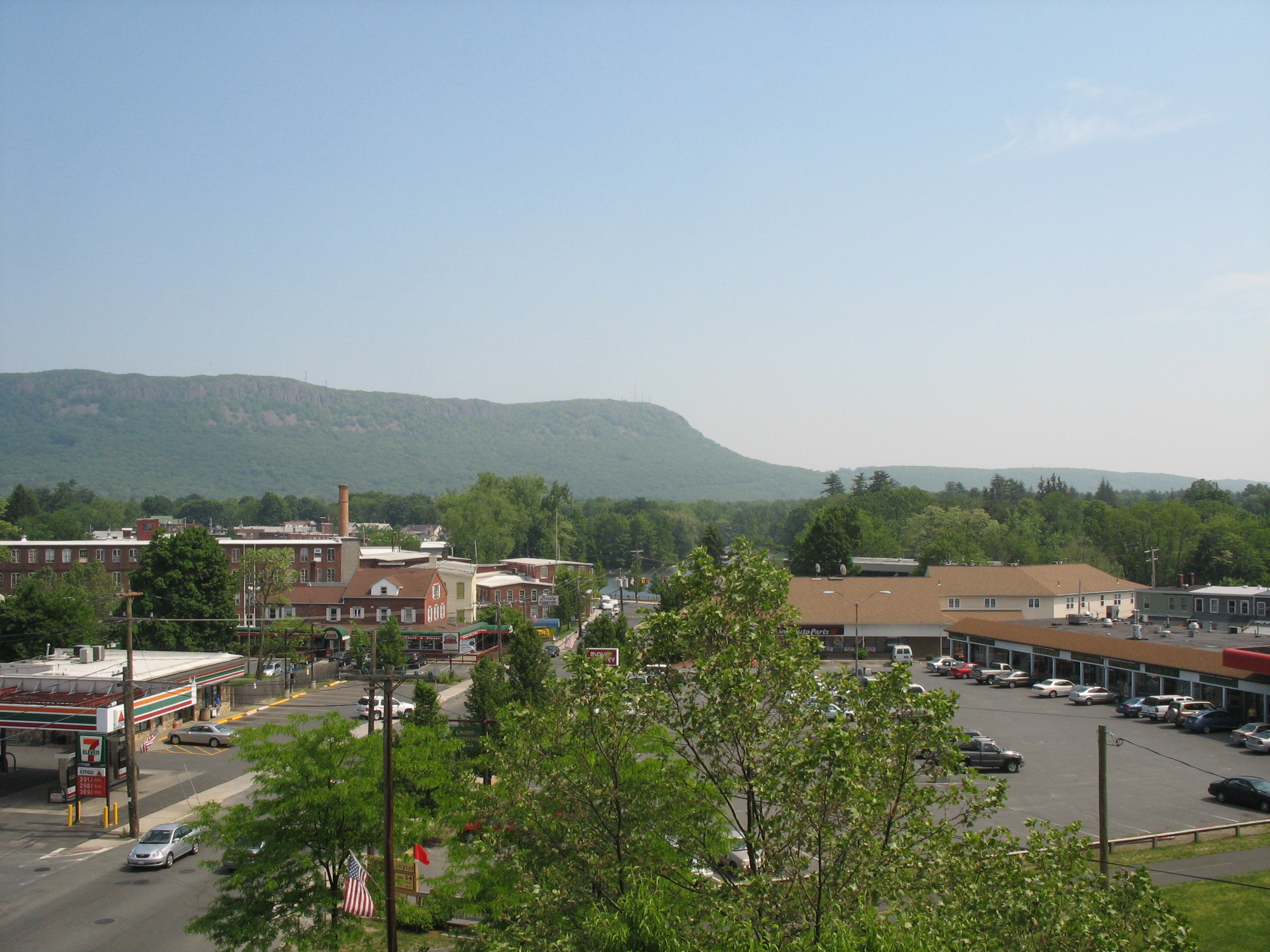 View of Mount Tom from the top of the old Easthampton fire station, Easthampton, Massachusetts, USA.